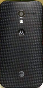 This is the Moto X back cover of the AT&T version.